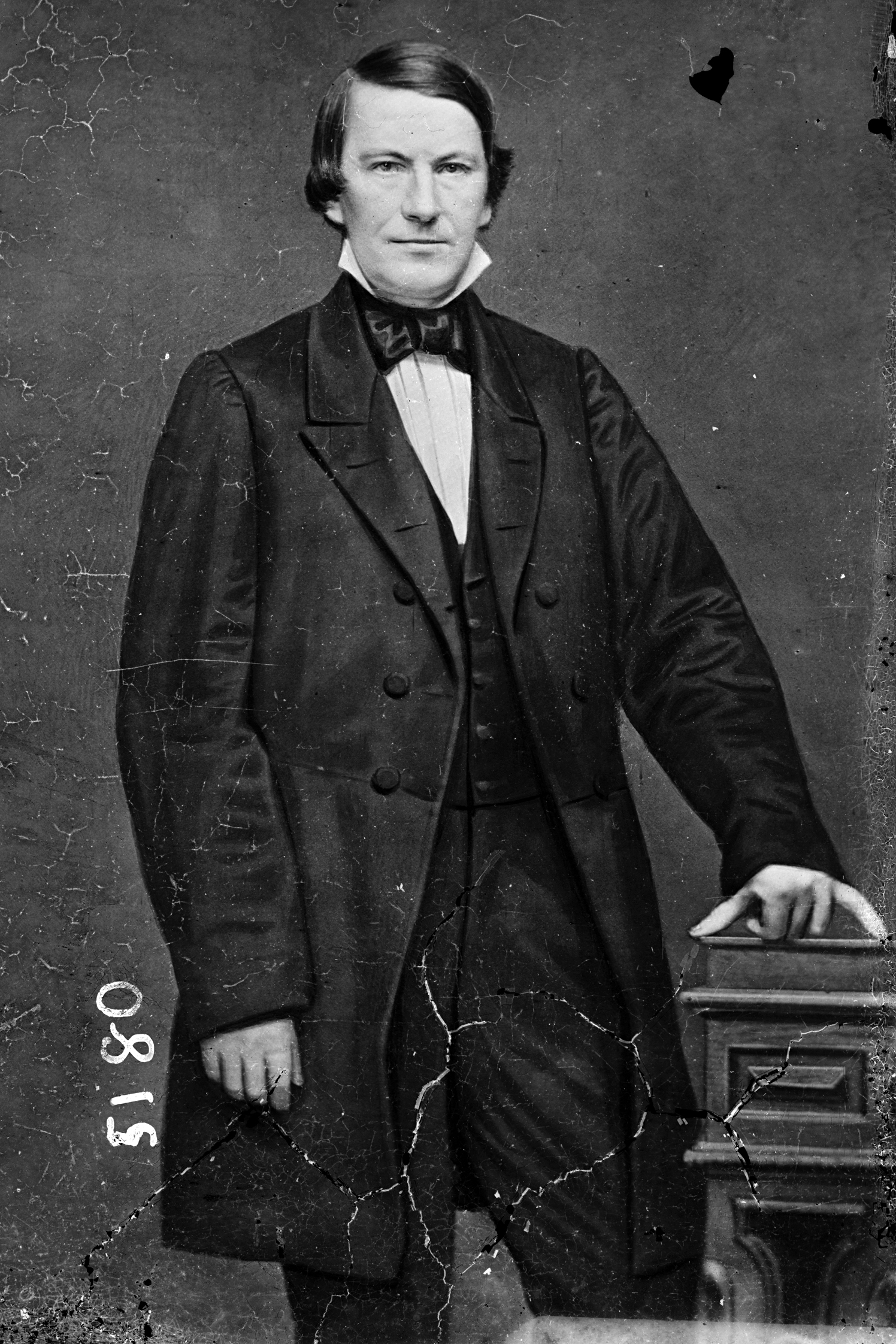 John Covode, US Representative from Pennsylvania